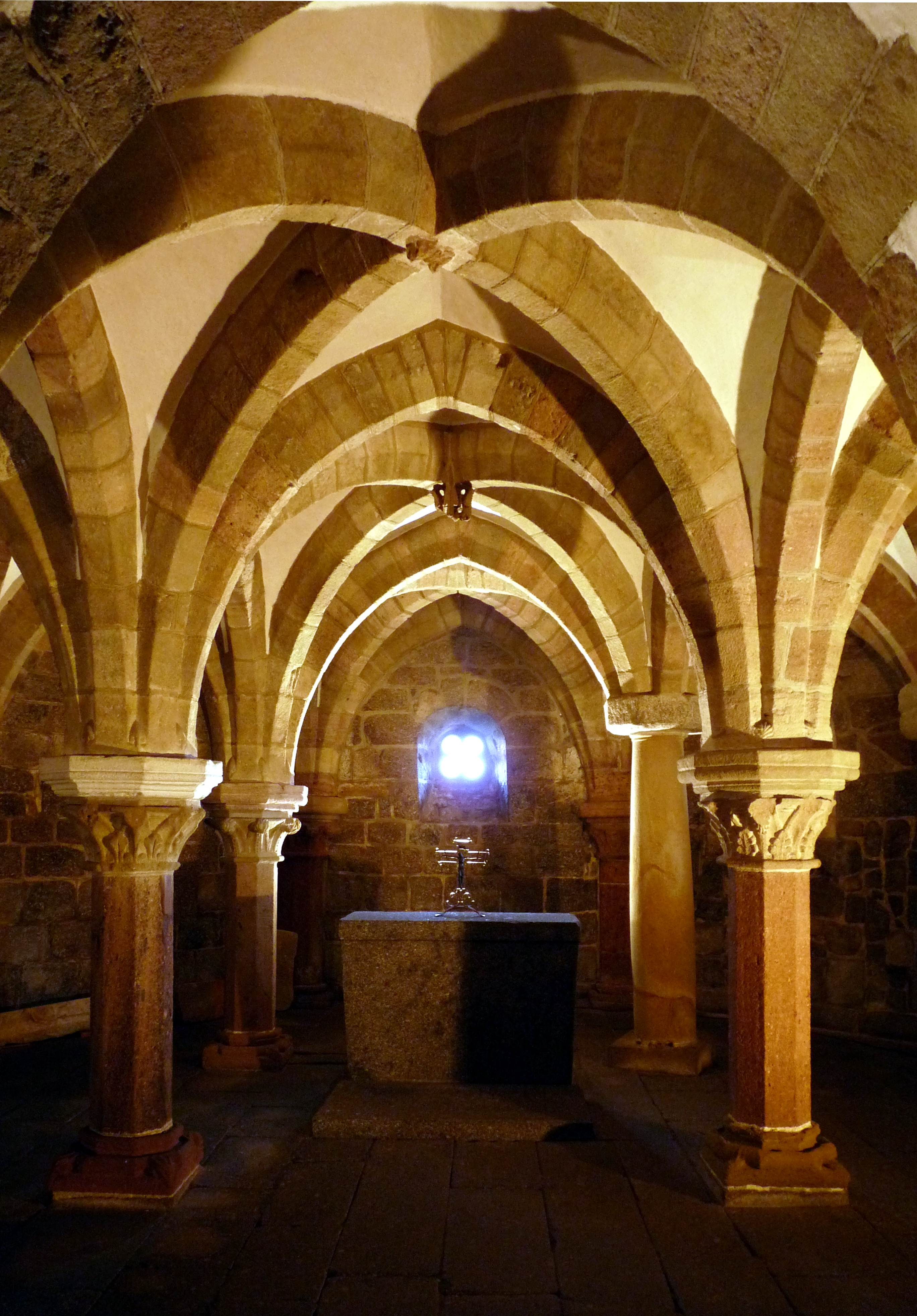 Crypt of the Basilica of Saint Procopius in the town of Třebíč, Vysočina Region, Czech Republic.